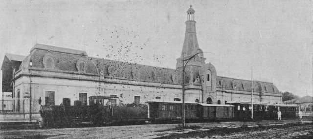 Corrientes station, part of Ferrocarril Económico Correntino.